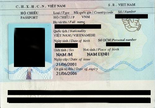 Identity page of a Vietnamese passport issued in 2001Tiếng Việt: Hộ chiếu của Việt Nam cấp năm 2001.